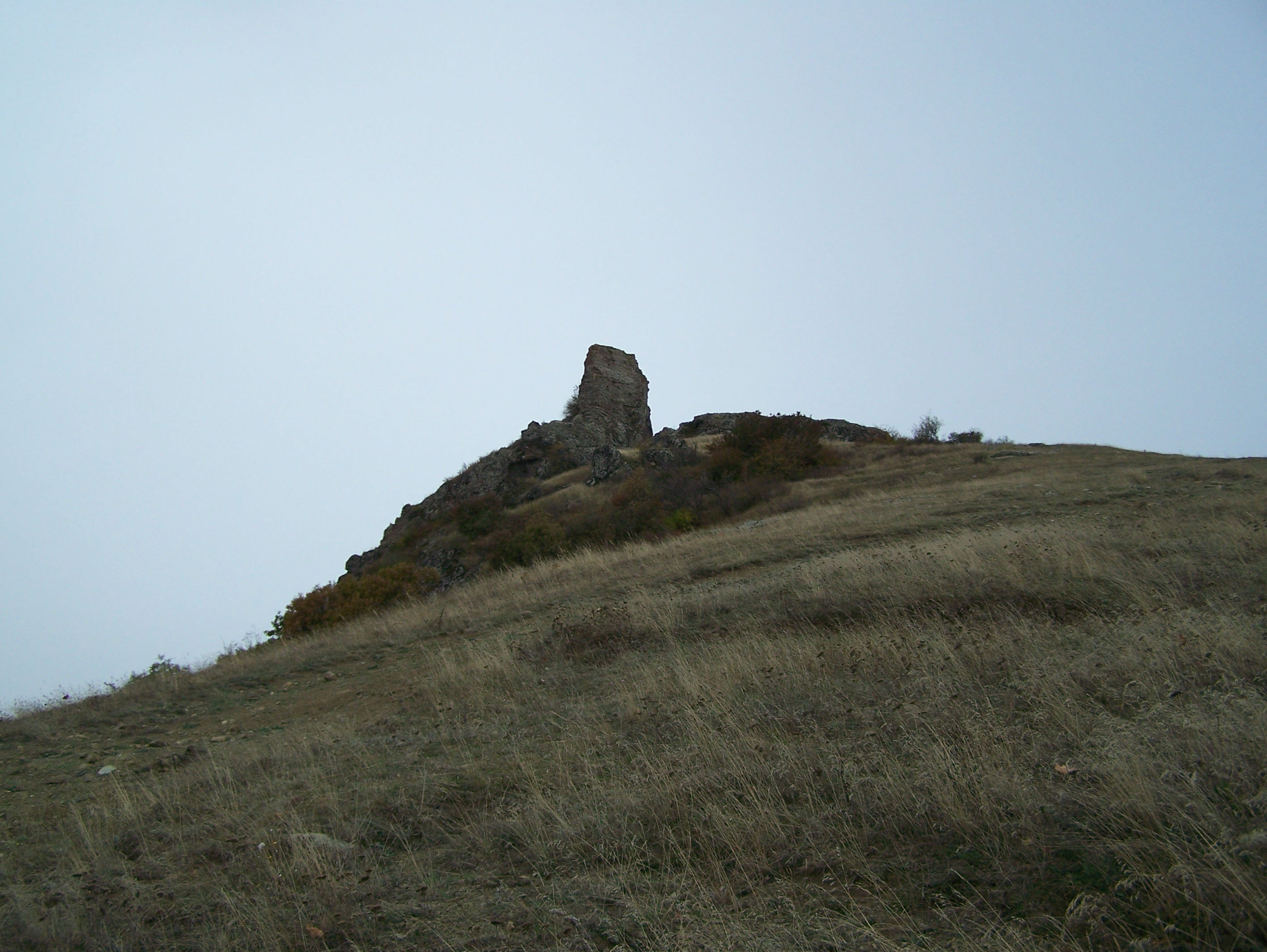 Kojori – Agarani Fortress (6 October 2013). 002